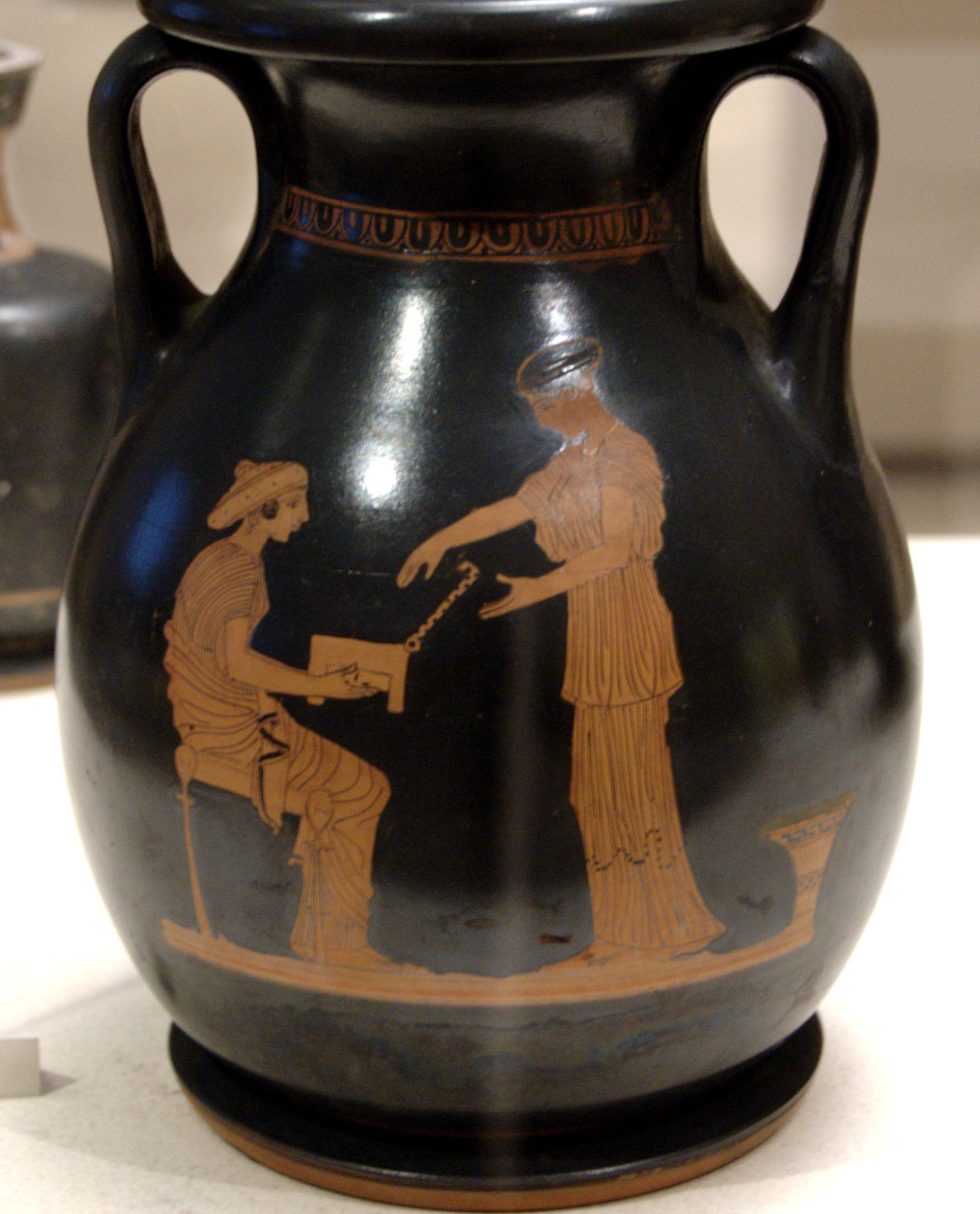 Gynaeceum scene. Attic red-figure pelike, 440–430 BC. From Nola.